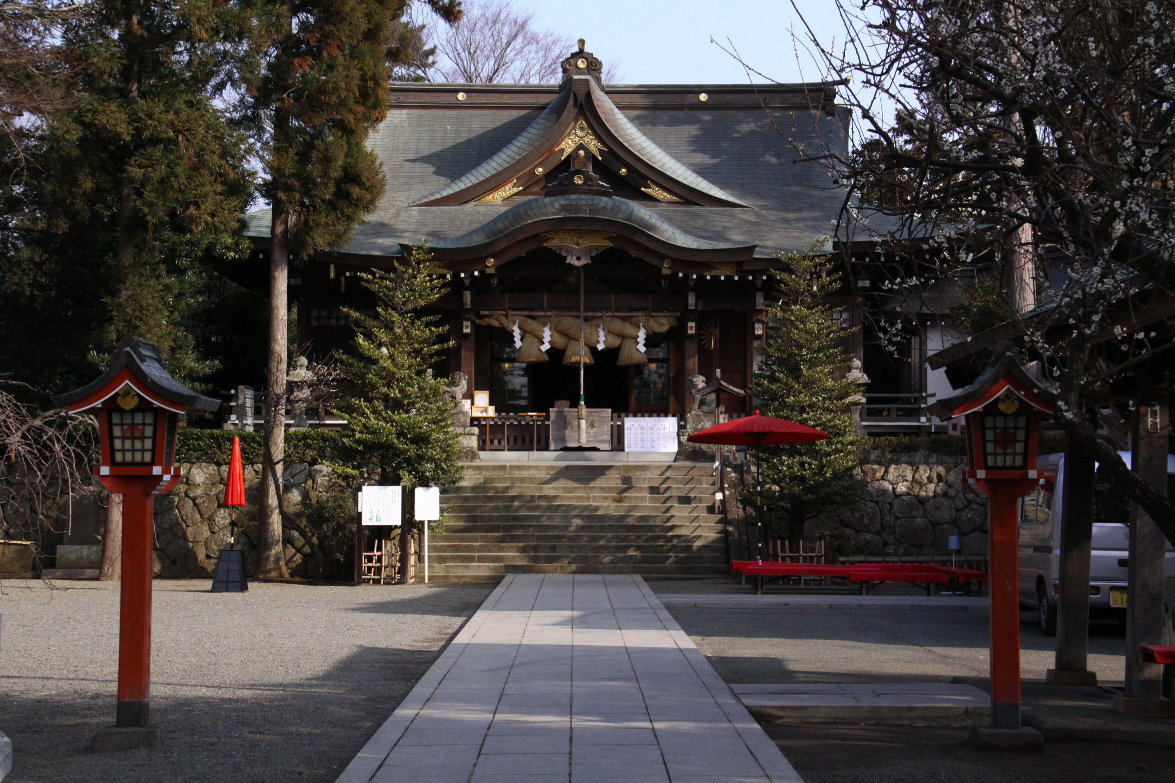 Rokusho jinja Haiden